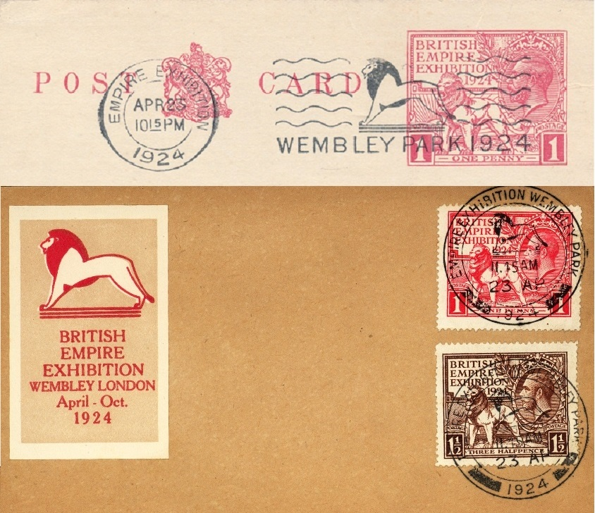 examples of a 1924 British Empire Exhibition Wembley Park special postmark and slogan on a postal stationery postcard and a pair of British Empire Exhibition stamps